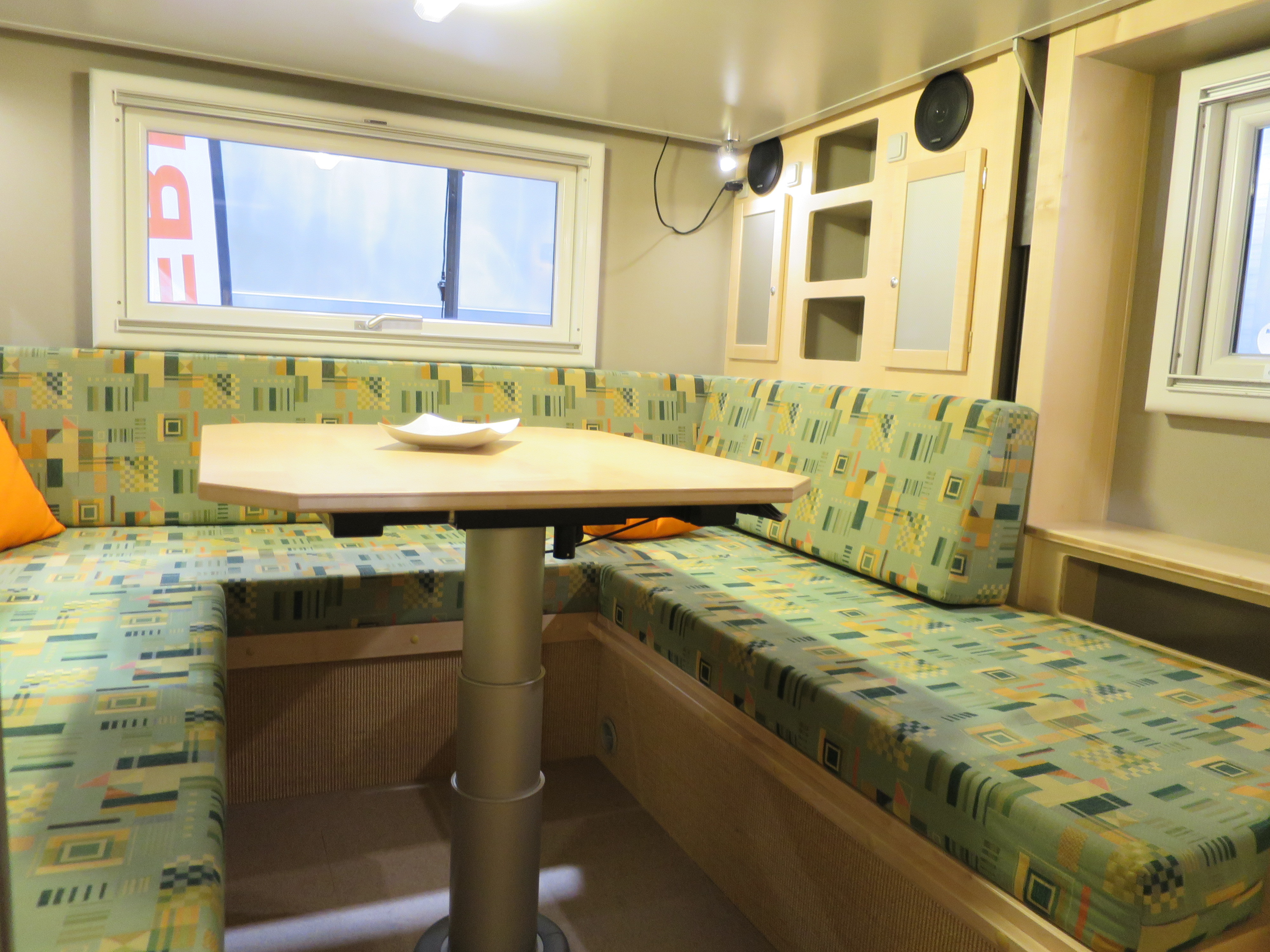 Bimobil Unimog.